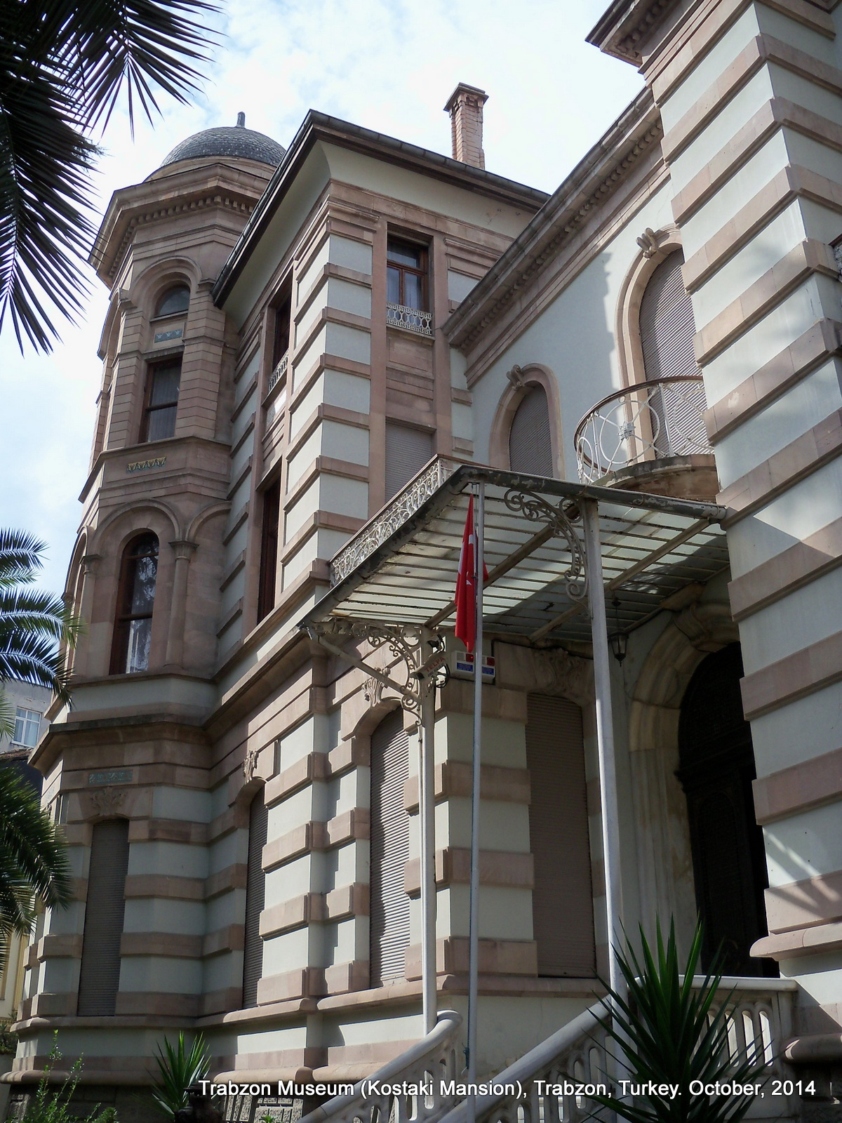 The Museum of Trabzon, Turkey, in the former mansion of Kostaki.